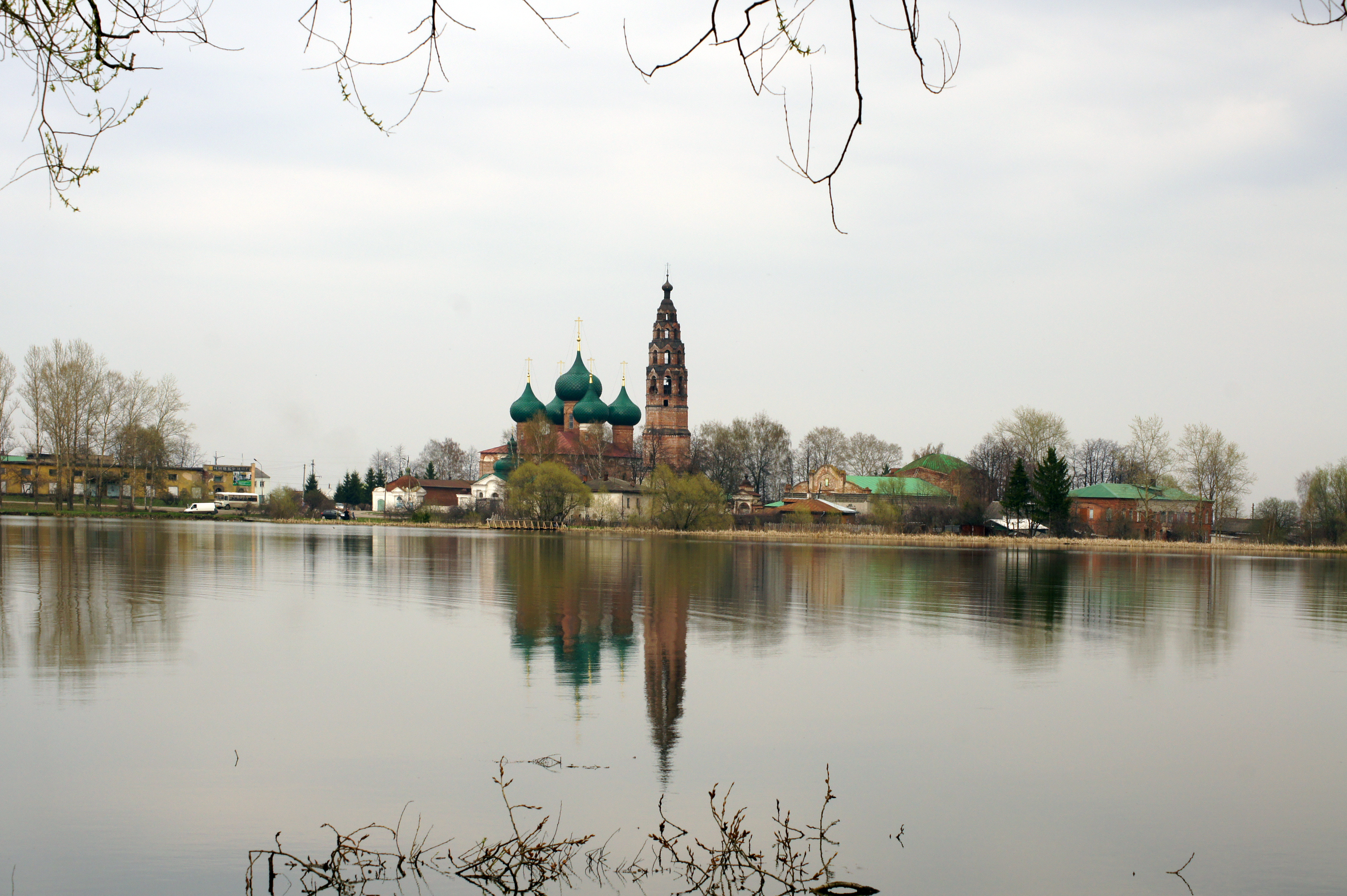 Velikoe